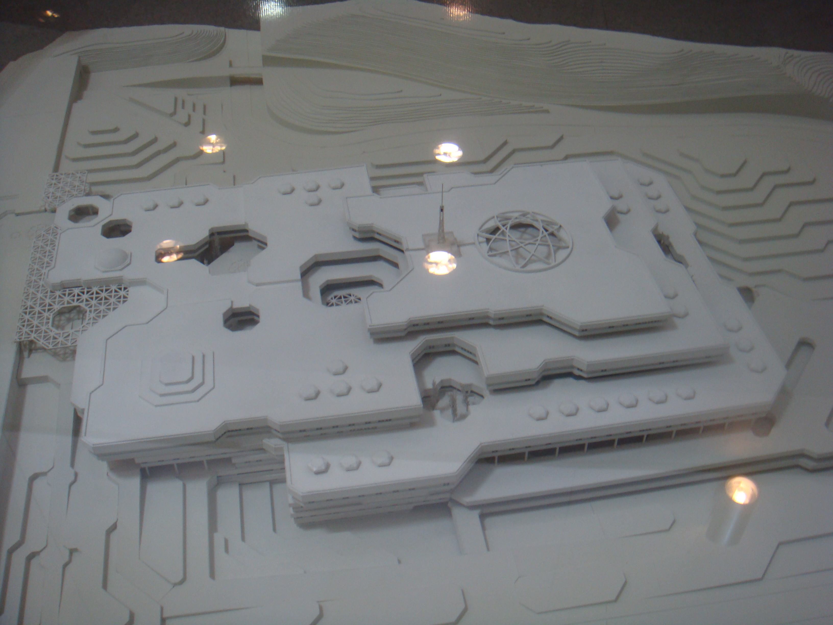 Model of National Library (Tehran, Iran)